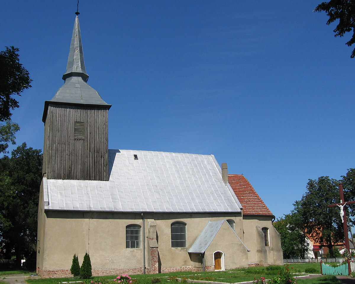 St. Mary's Immaculate Heart Church in Roby, Poland